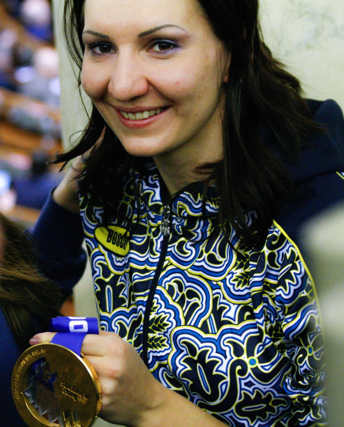 Olena Pidhrushna, Ukrainian biathlete, in Ukrainian Verkhovna Rada